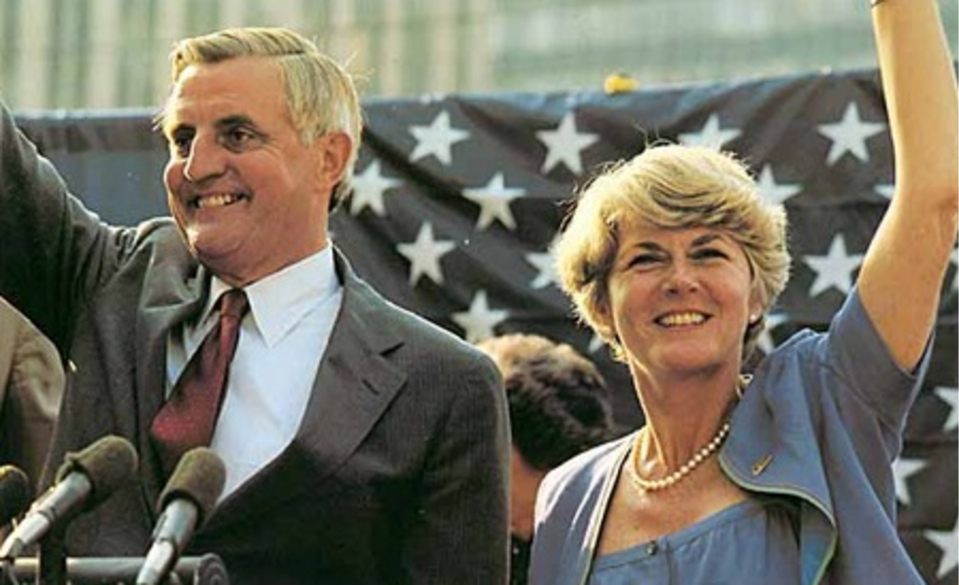 US. presidential candidate Walter Mondale and vice-presidential candidate Geraldine Ferraro photographed while campaigning at political rally at Fort Lauderdale, Florida. US LOC, April 27, 1984.